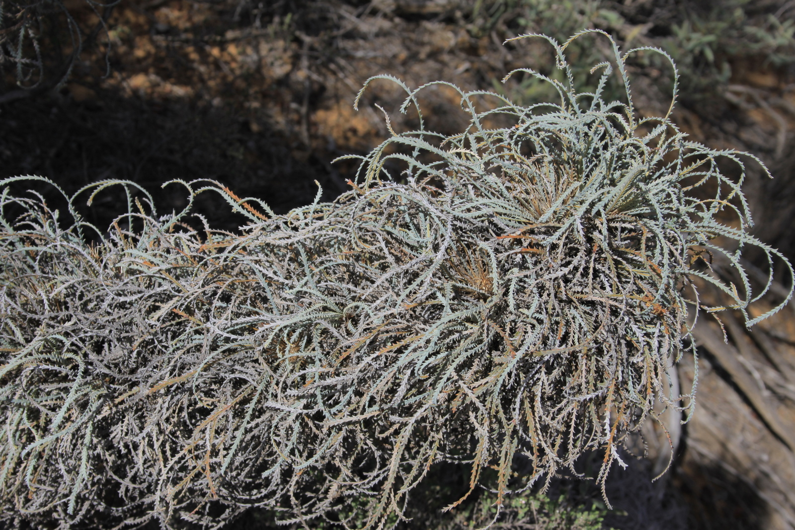 Wongan dryandra taken at Wongan Hills Nature Reserve